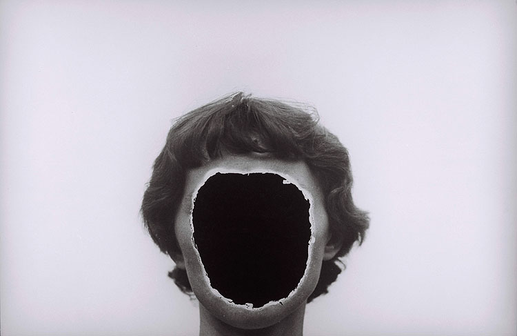 Wife portrait, year 1967-67